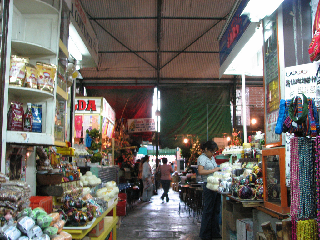 Inside the Mercado Benito Juárez en Oaxaca, OAX, Mexico.